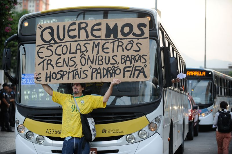 Protests during the World Fights against the Cup Day at Avenida Presidente Vargas, downtown Rio de Janeiro.In the sign: "We want FIFA standard schools, undergrounds, trains, buses, ferries and hospitals."